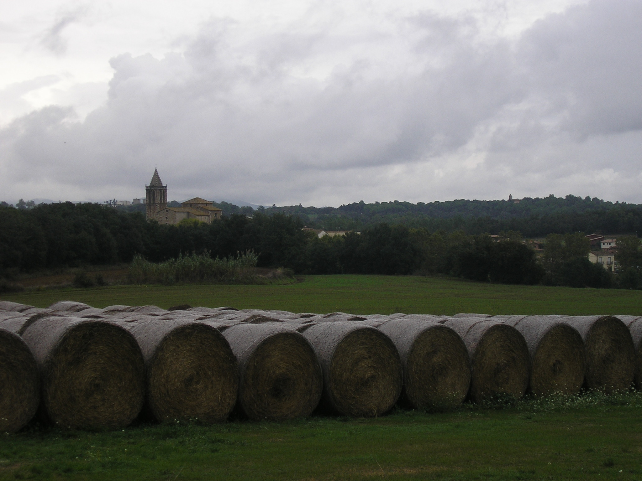 View of Aiguaviva from Pedra Dalmaua